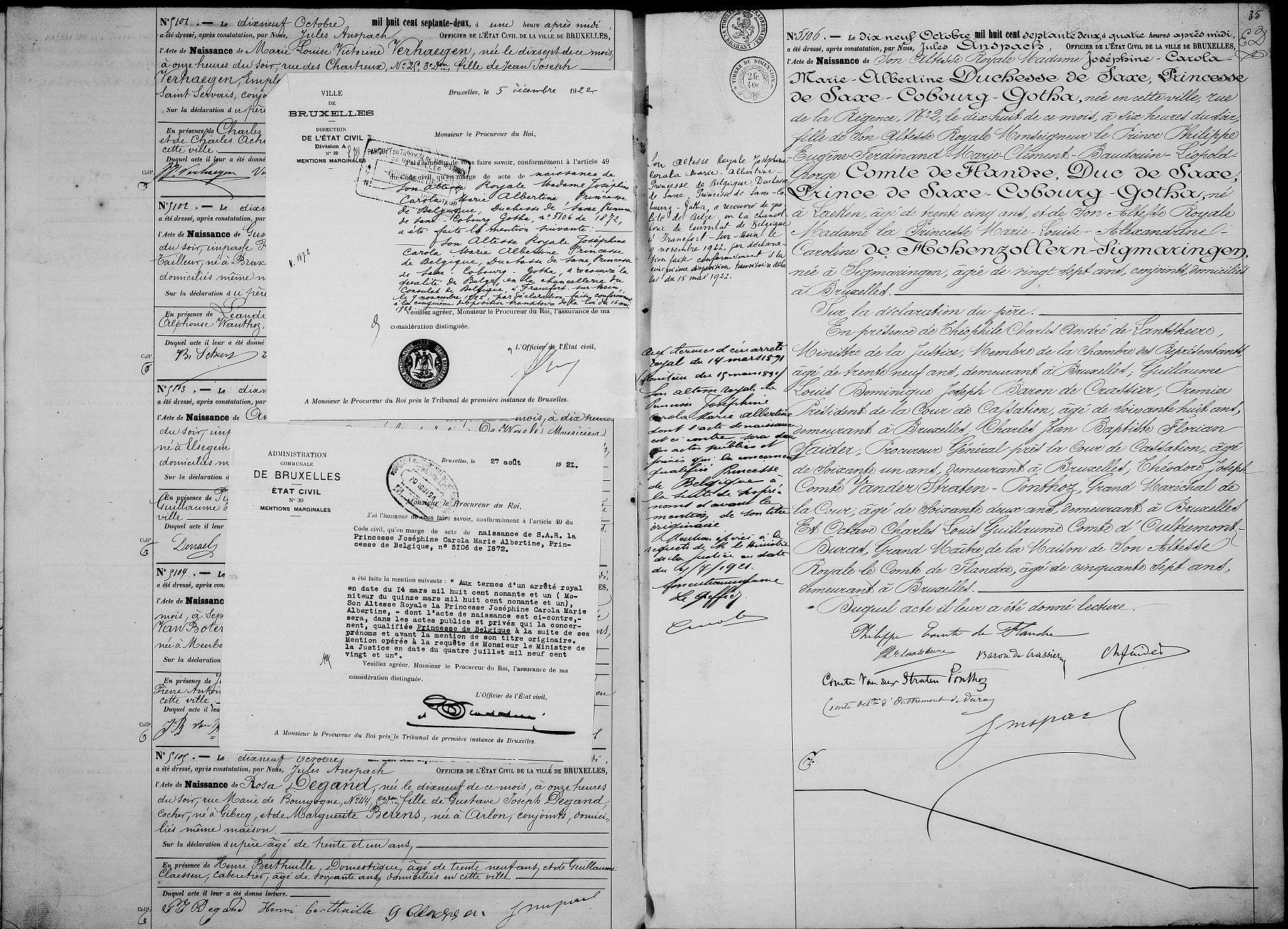 Birth act of Princess Joséphine Caroline of Belgium (born October 18, 1872) laid under the authority of Burgomaster Jules Anspach, Civil Record Officer of Brussels + additionnal mentions concerning her title of Princess of Belgium and her Belgian nationality.